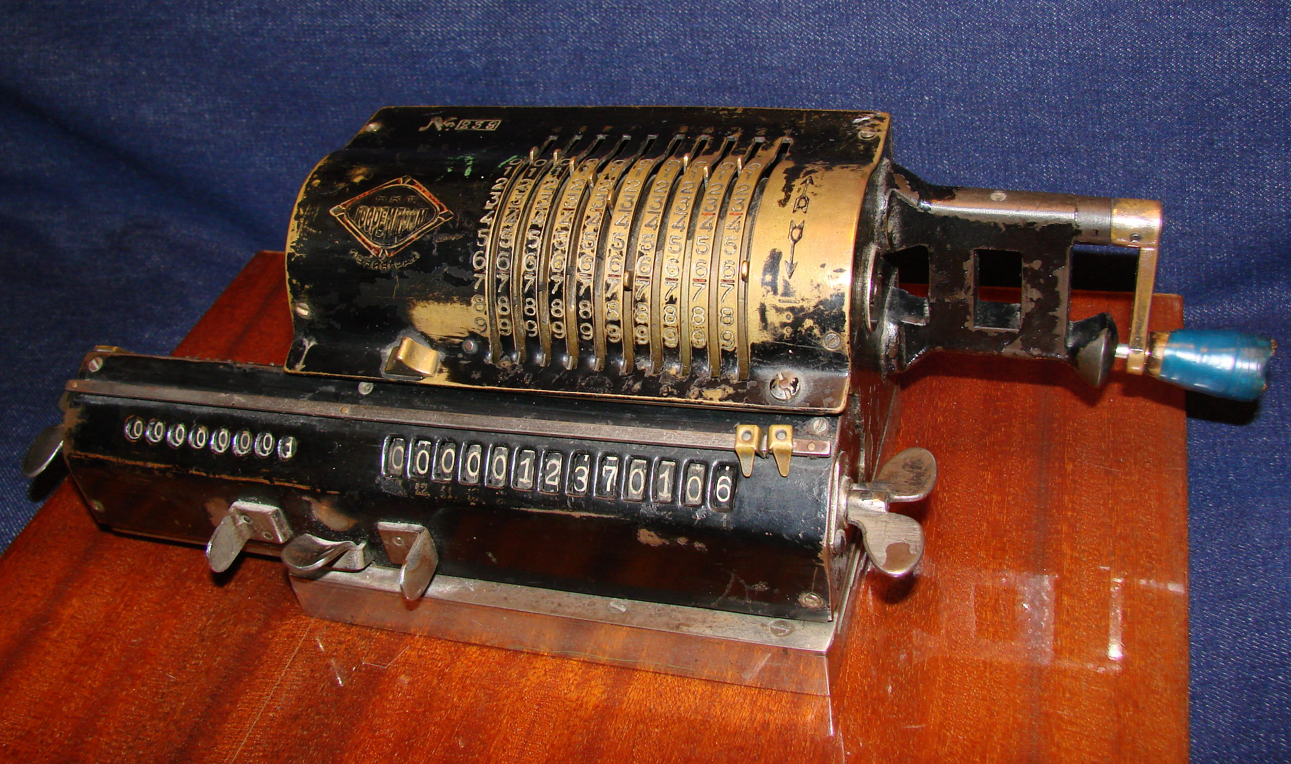 Sergei Frolov,Soviet Calculators Collection, From User:Sergei Frolov